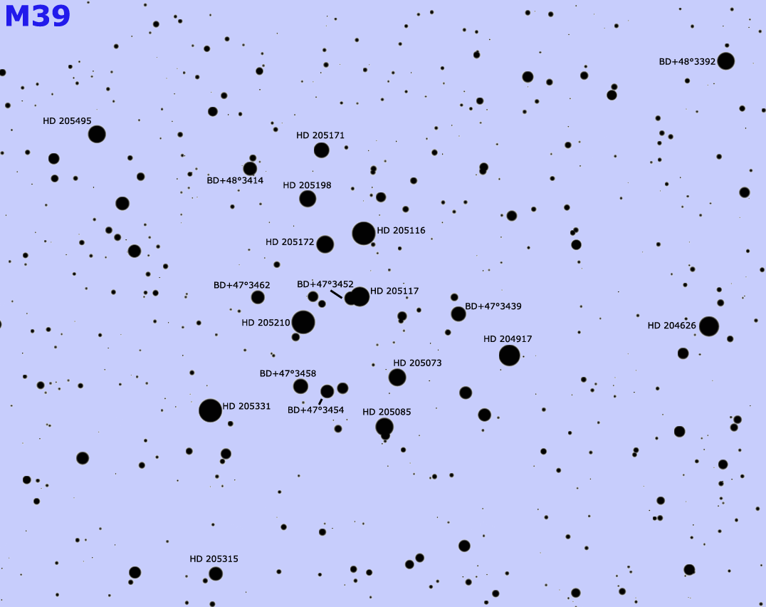 Detailed map of Messier 39